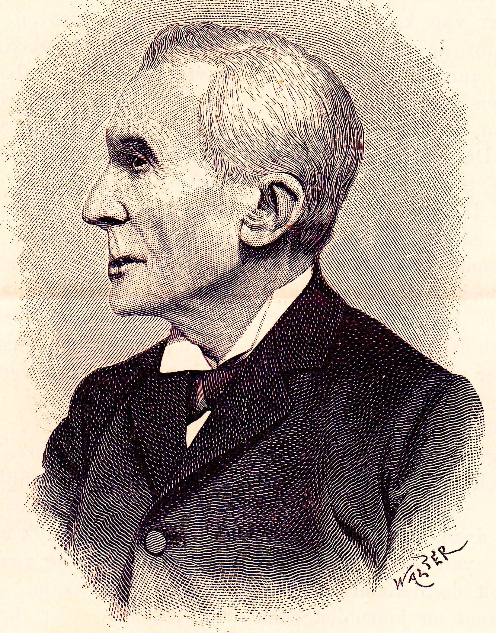 Mr L.W.C. Keuchenius